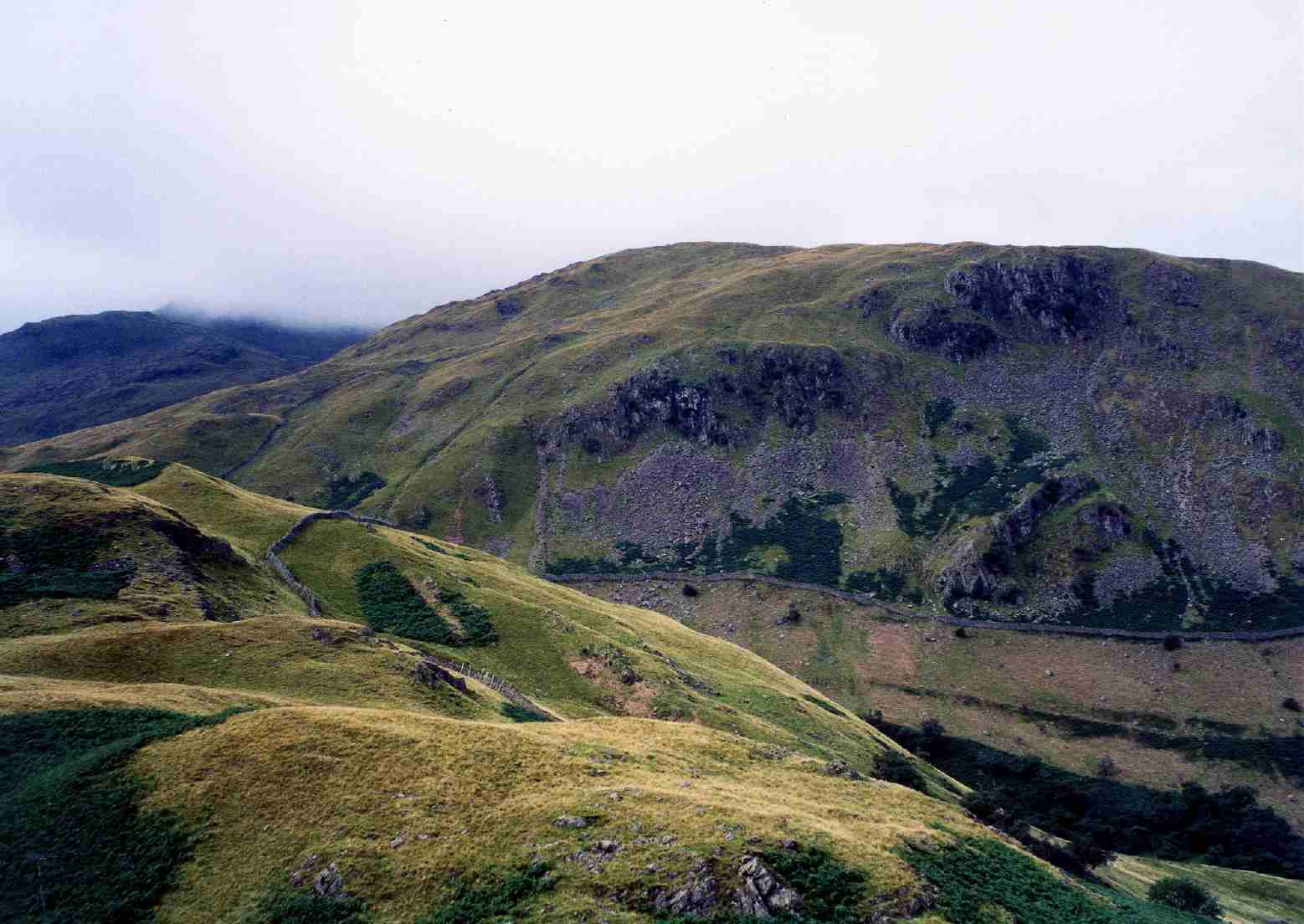 Birks seen across Hag Beck from Arnison Crag, 1 km to the NE. Personal photograph taken by Mick Knapton